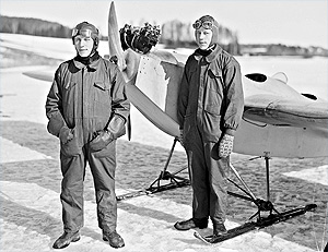 Karhumäki brothers and their aircraft Karhu 2 in Keljo, Jyväskylä, Finland in 1927